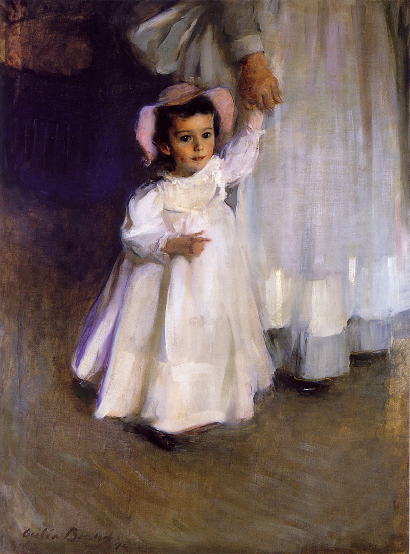 "Ernesta" (also known as "Child with Nurse")